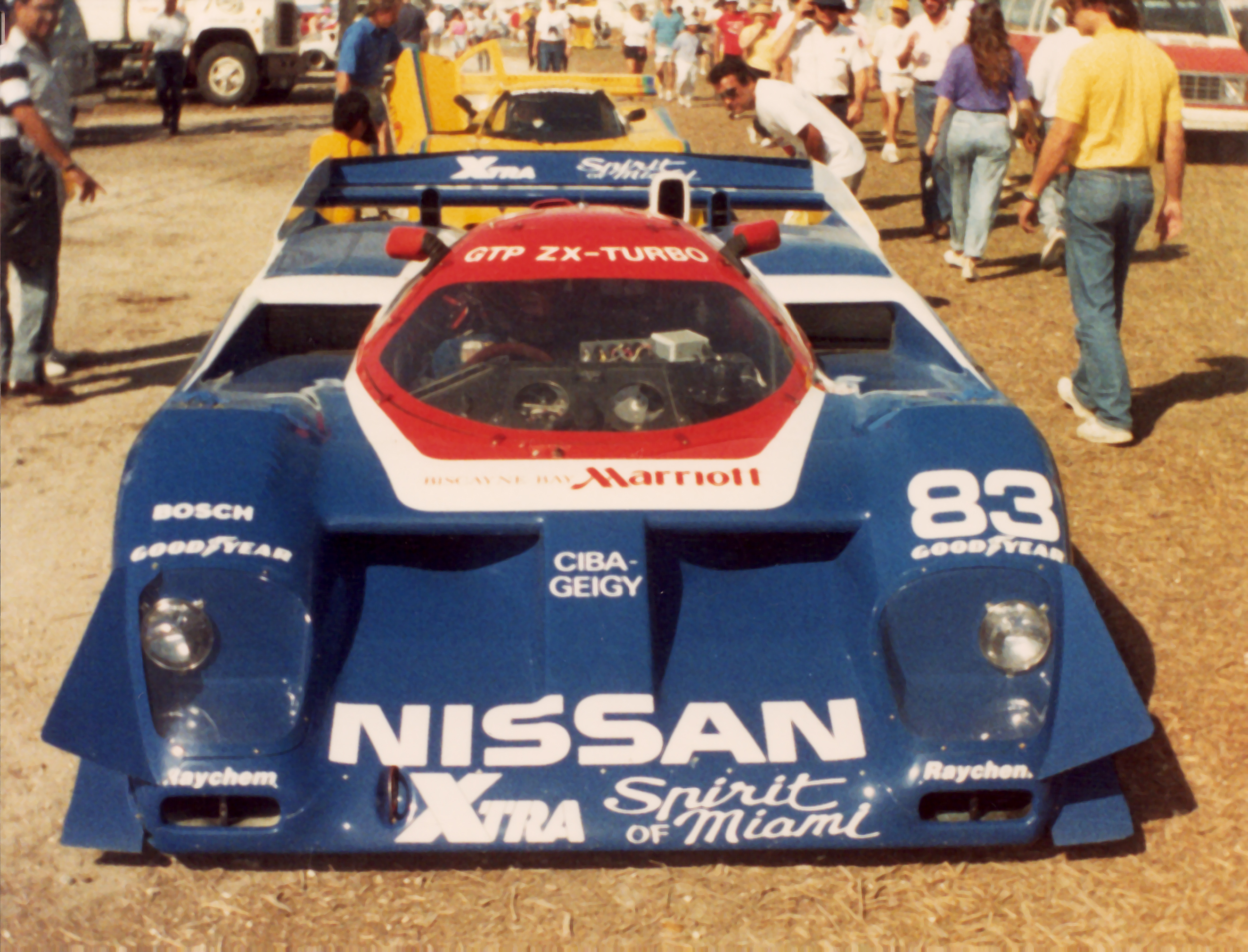 The Nissan GTP ZX-Turbo IMSA GTP car, entered by Electramotive Engineering, in the paddock at the 1989 Miami Grand Prix. This car, driven by Geoff Brabham and Chip Robinson eventually won the race event. Photo taken with a Vivitar 110 film camera.